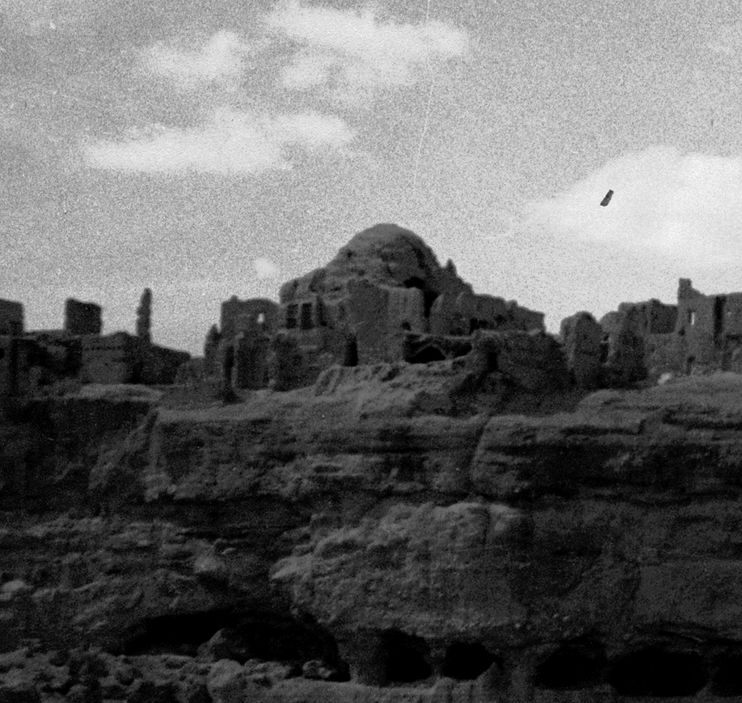 Izadkhast Chahrtaqi (Atashkadeh (=Zoroastrian fire temple)), Abadeh county, Fars Province, Iran, 1935, By Annemarie Schwarzenbach